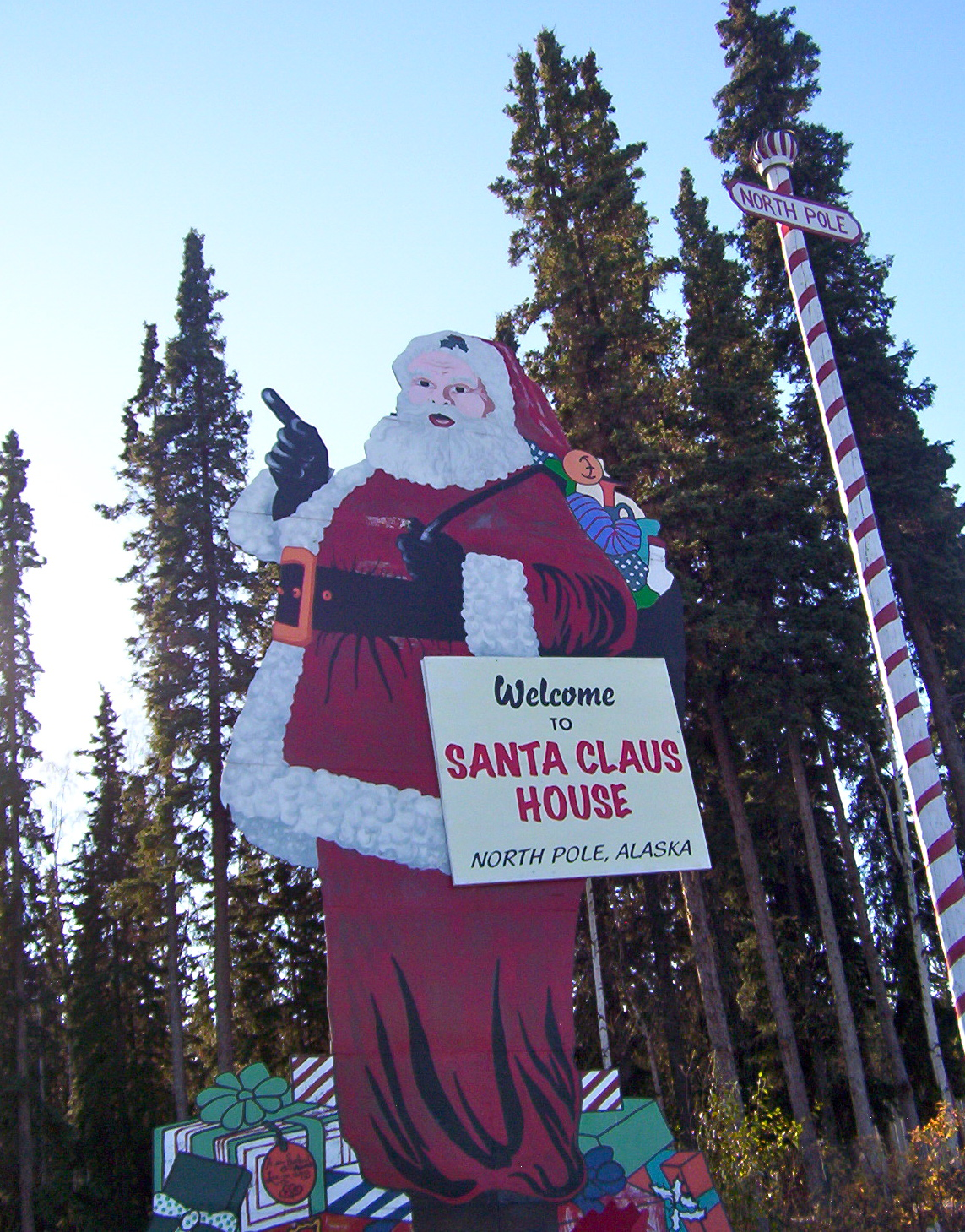 large wooden Santa Claus and "north pole" at Santa Claus House, North Pole, Alaska